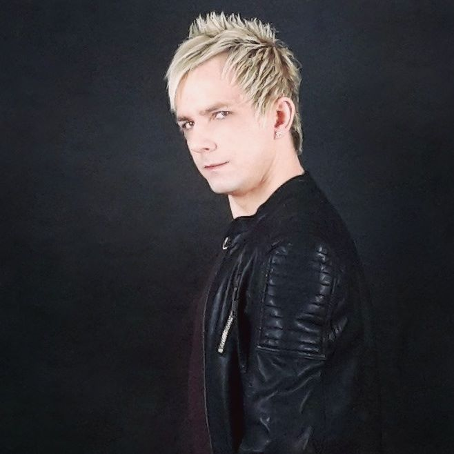 Alec Xander (2017)